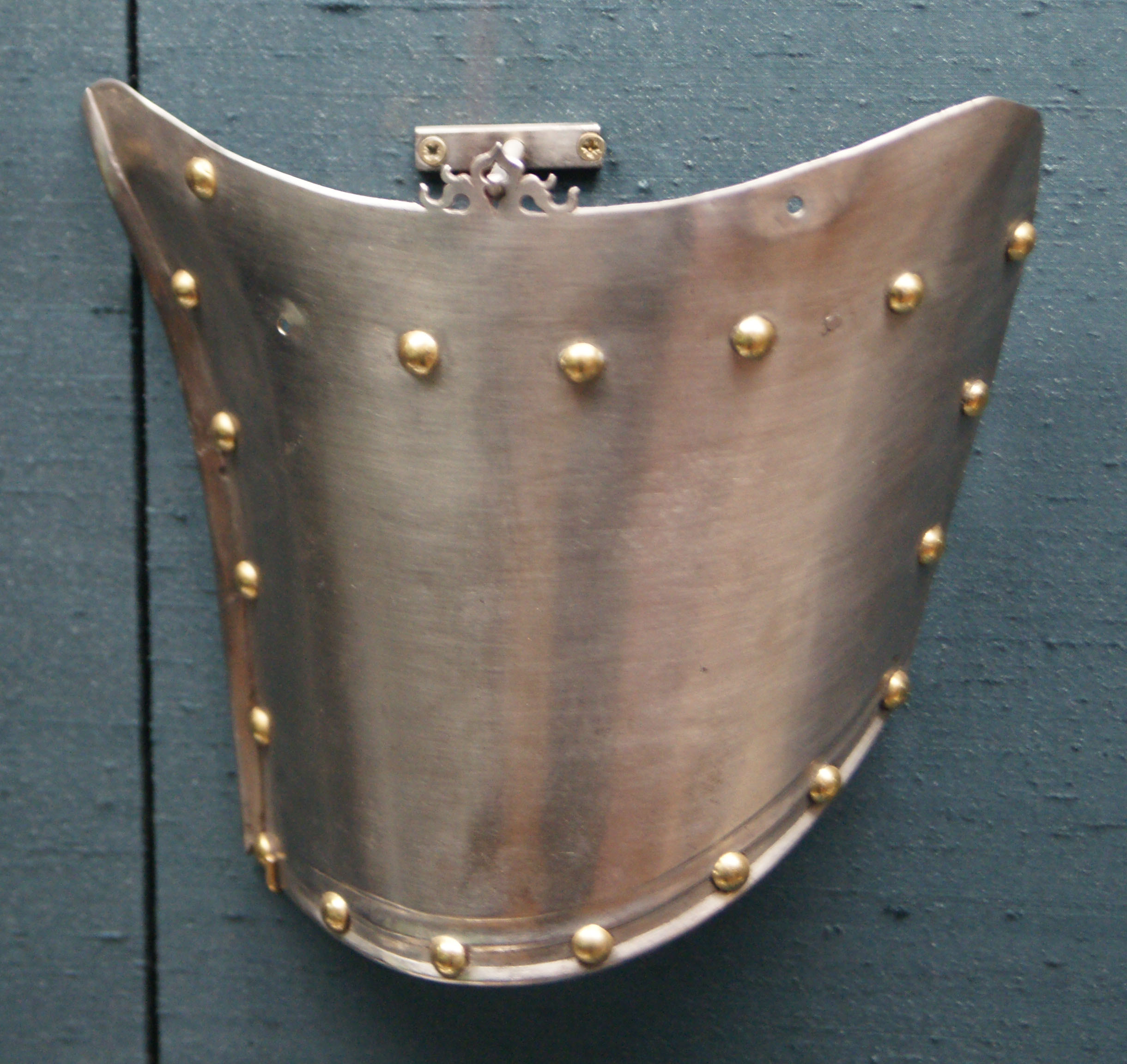 Tasset, part of the armour of Emperor Maximilian I, part of the set of armour probably depicted in Thun fol. 33v, 67 and 67v.